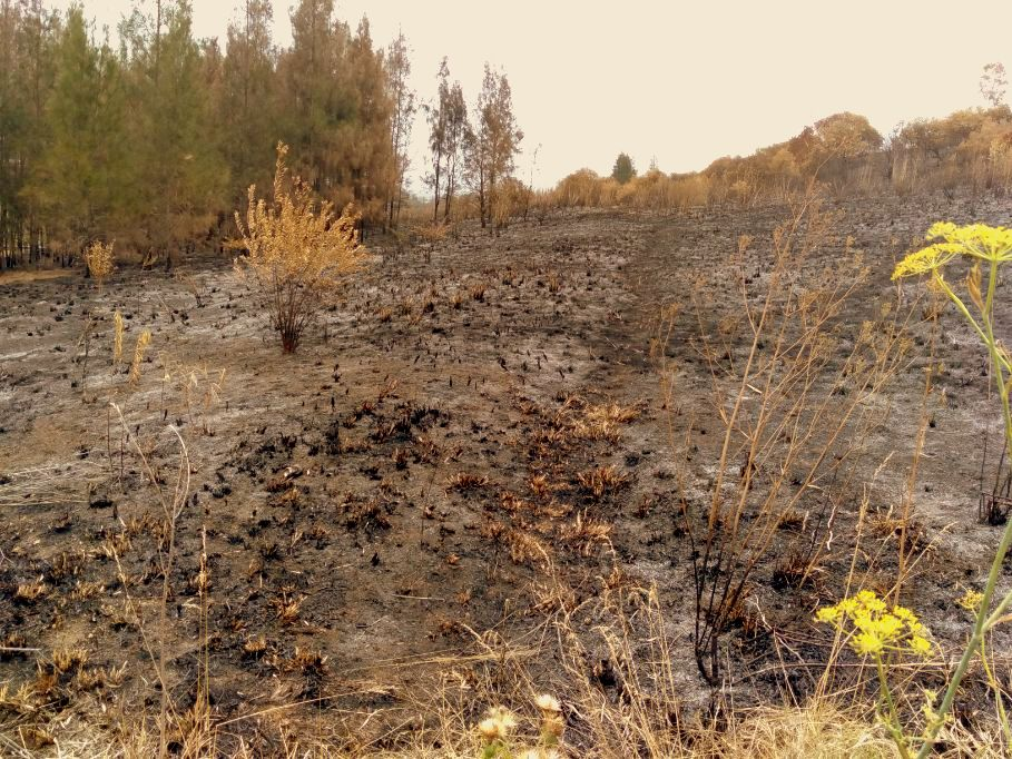 What's left of Prospect Hill, Greystanes, just above Wetherill Park in Sydney, Australia